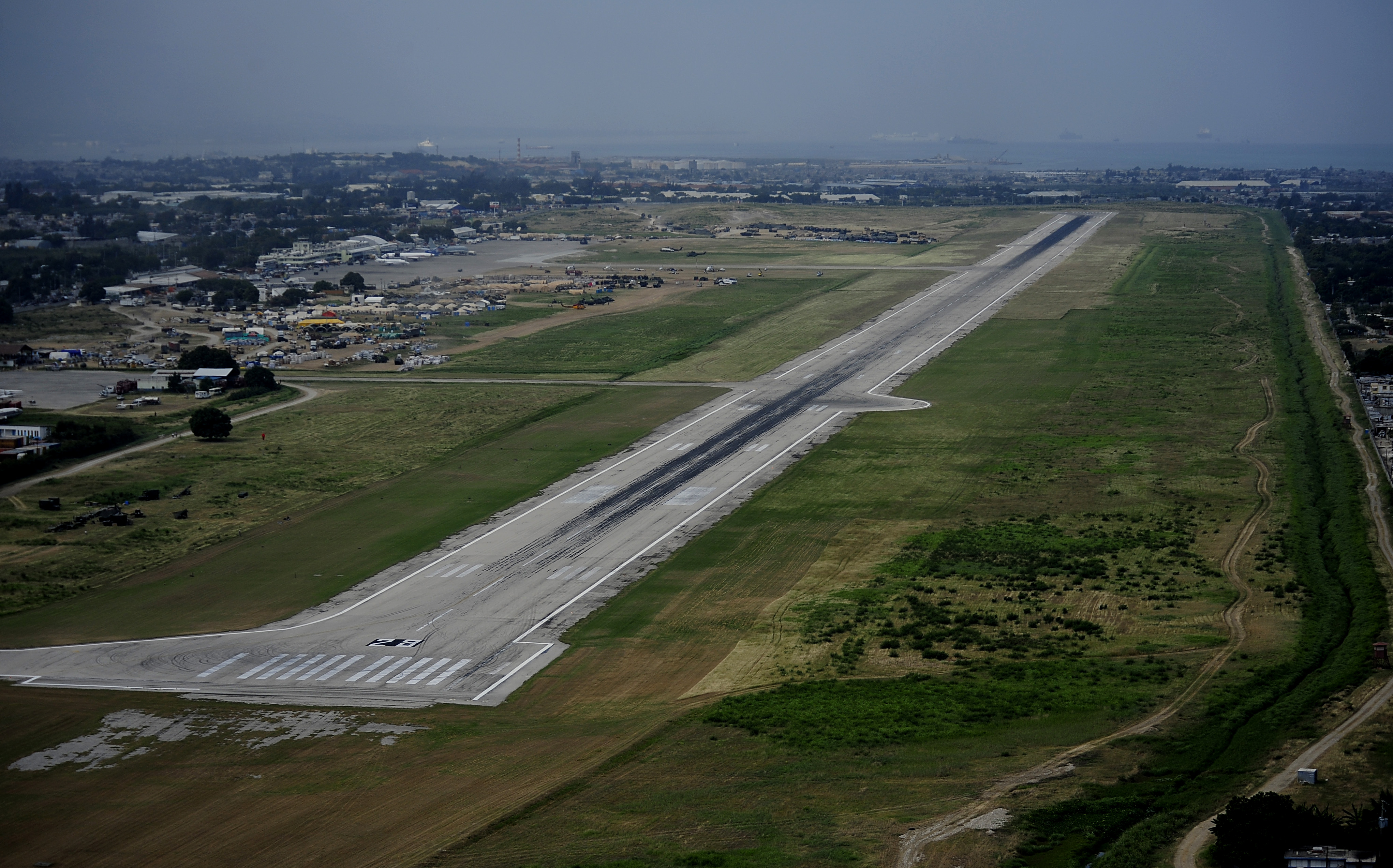 An aerial view of the Toussaint L'Ouverture International Airport in Port-au-Prince, Haiti, is shown Jan. 26, 2010.